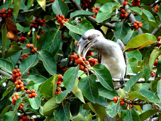 Grey-hornbill, althogh a common bird in Maharashtra,India, requires specific habitats like large-tree jungles / gardens / village outskirts. Particularly Fruit-bearing Large-trees like Bynian, attract this large-size, sleek, shy bird as it likes ripen fruits. The photo was taken at Nagpur, Maharashtra State, India while the hornbill was happily feeding on ripen fruits of bynian-tree in the early morning hours.